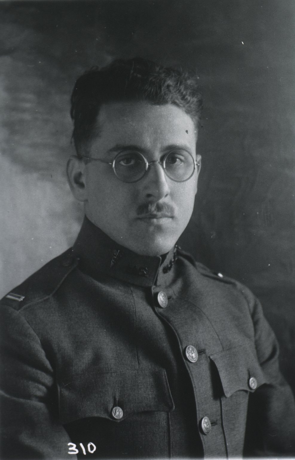 Samuel Zachary Orgel (1892-1984) in uniform of Captain of Medical Corps, December 1918